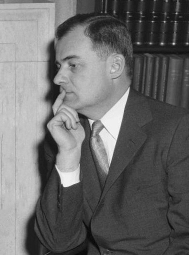 Frederick C. Robbins